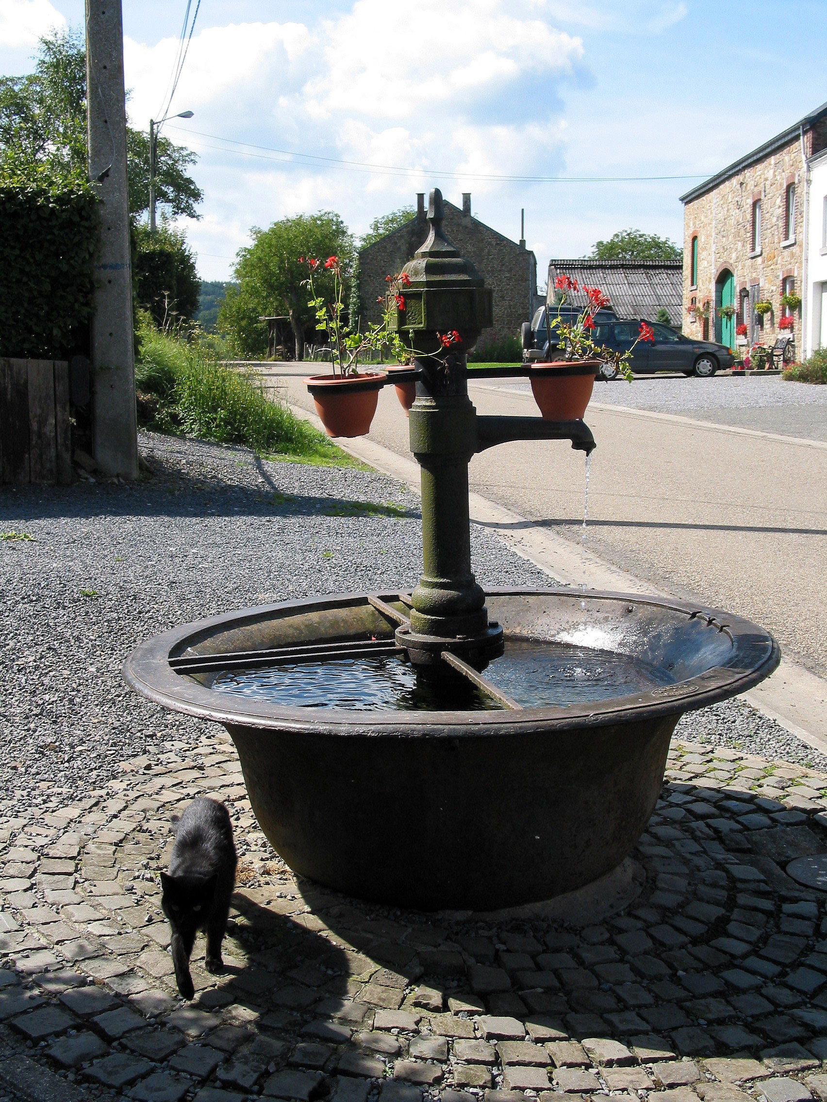 Awenne (Belgium), fountain placed between 1859 and 1860 by Joseph Hobs (farrier in Forrières).